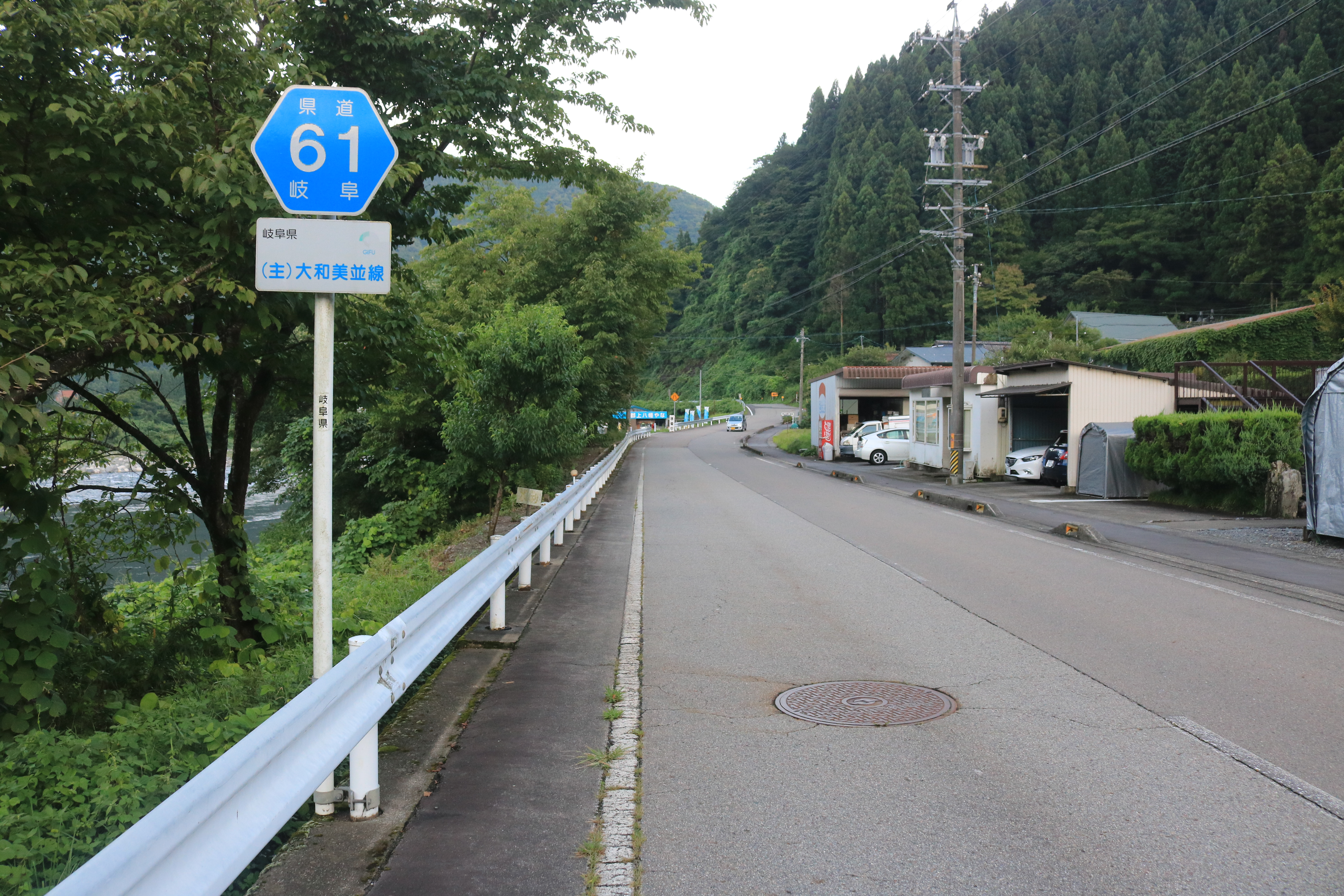 Gifu Prefectural Road Route 61 in Inari, Hachimancho, Gujo, Gifu Prefecture, Japan.